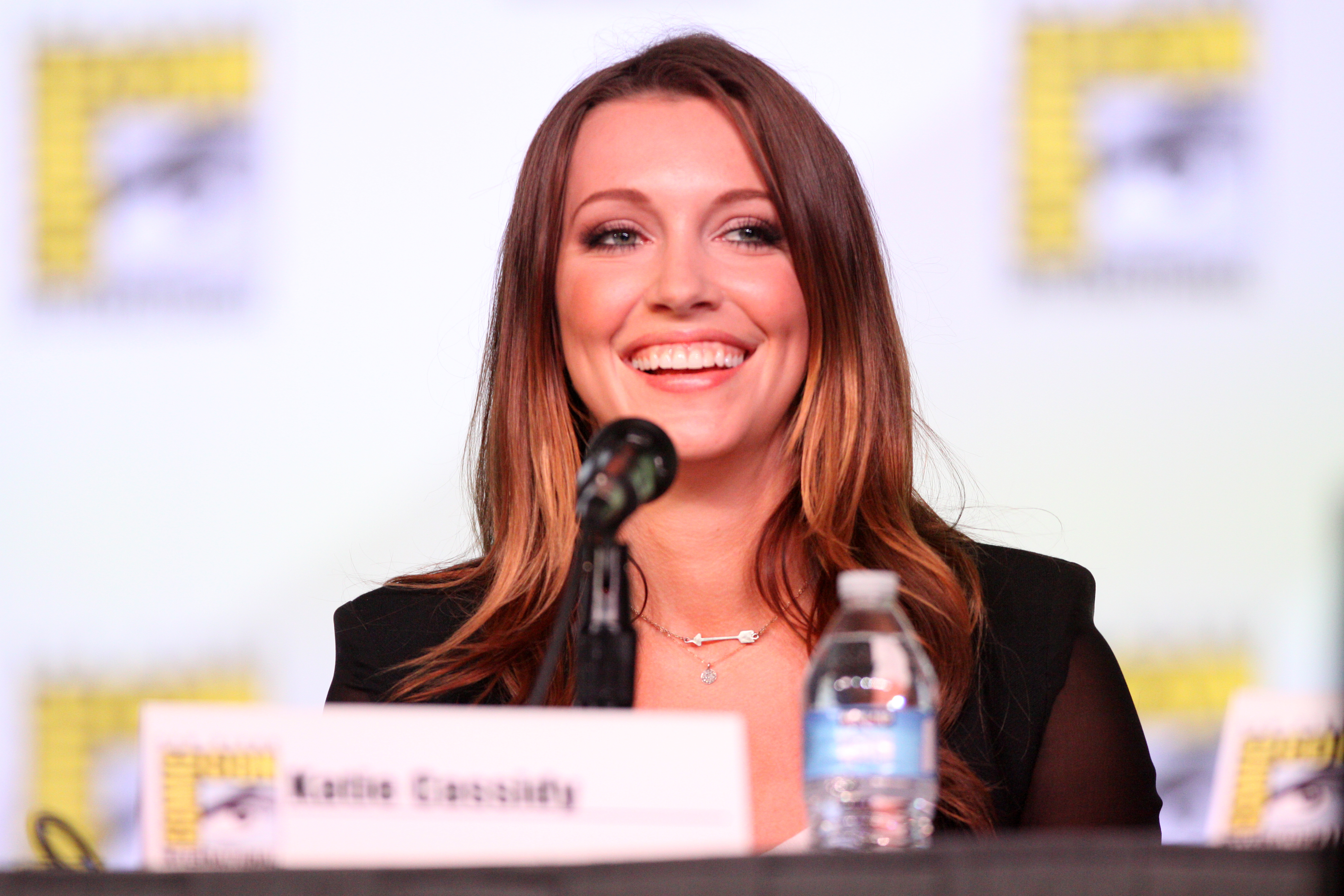 Katie Cassidy speaking at the 2012 San Diego Comic-Con International in San Diego, California.